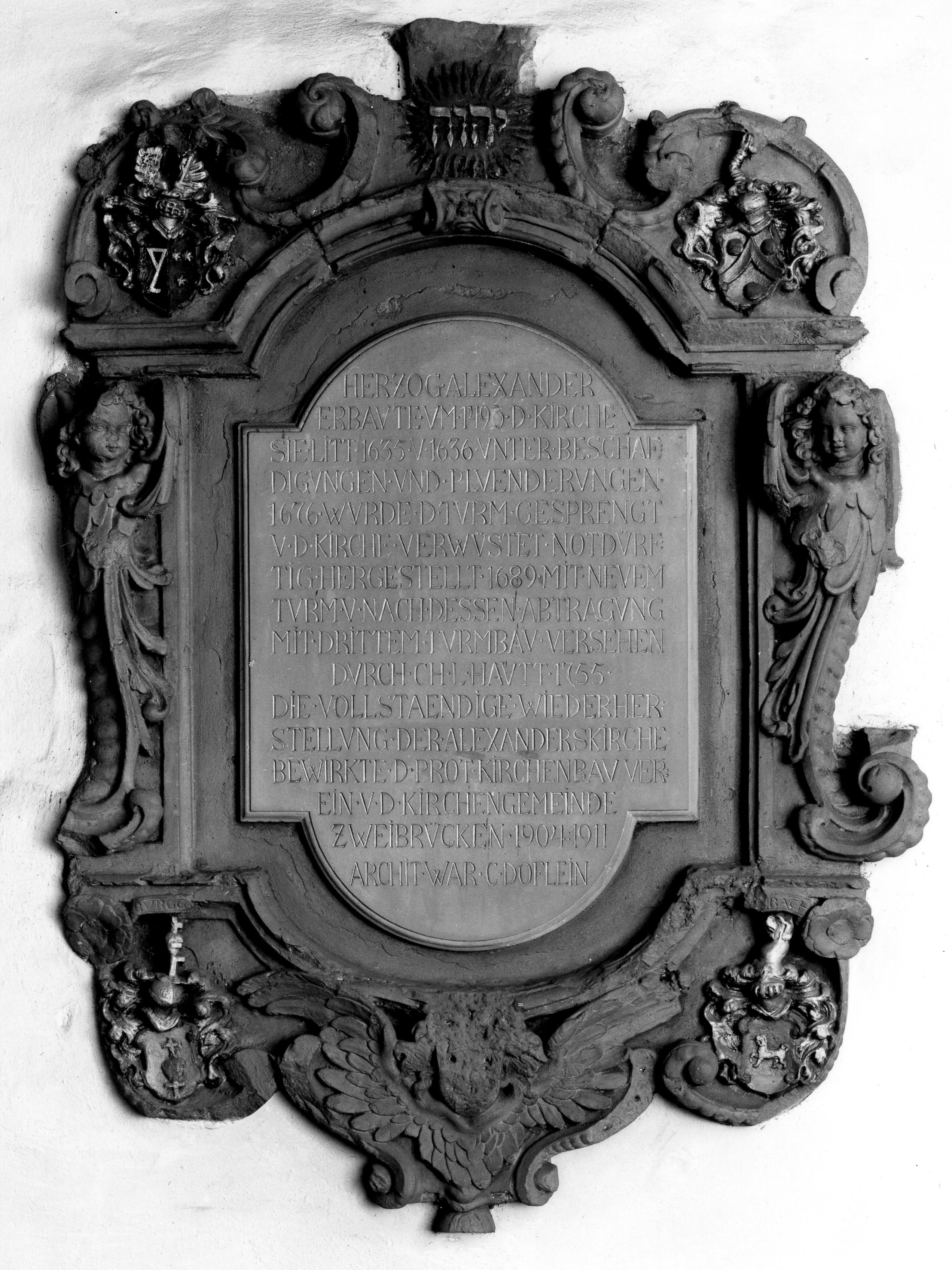 Epitaph Schwebel